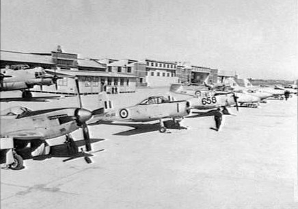 Eight RAAF aircraft types on display at No 1 Aircraft Depot RAAF Station Laverton during Battle of Britain "Open Day", September 1955. From left are: Avro Lincoln (upper), North American P-51D Mustang, CAC WinjeeL, CAC Wirraway, Gloster Meteor, De Havilland Vampire, CAC Avon-Sabre (two) and GAF Canberra (rear centre).